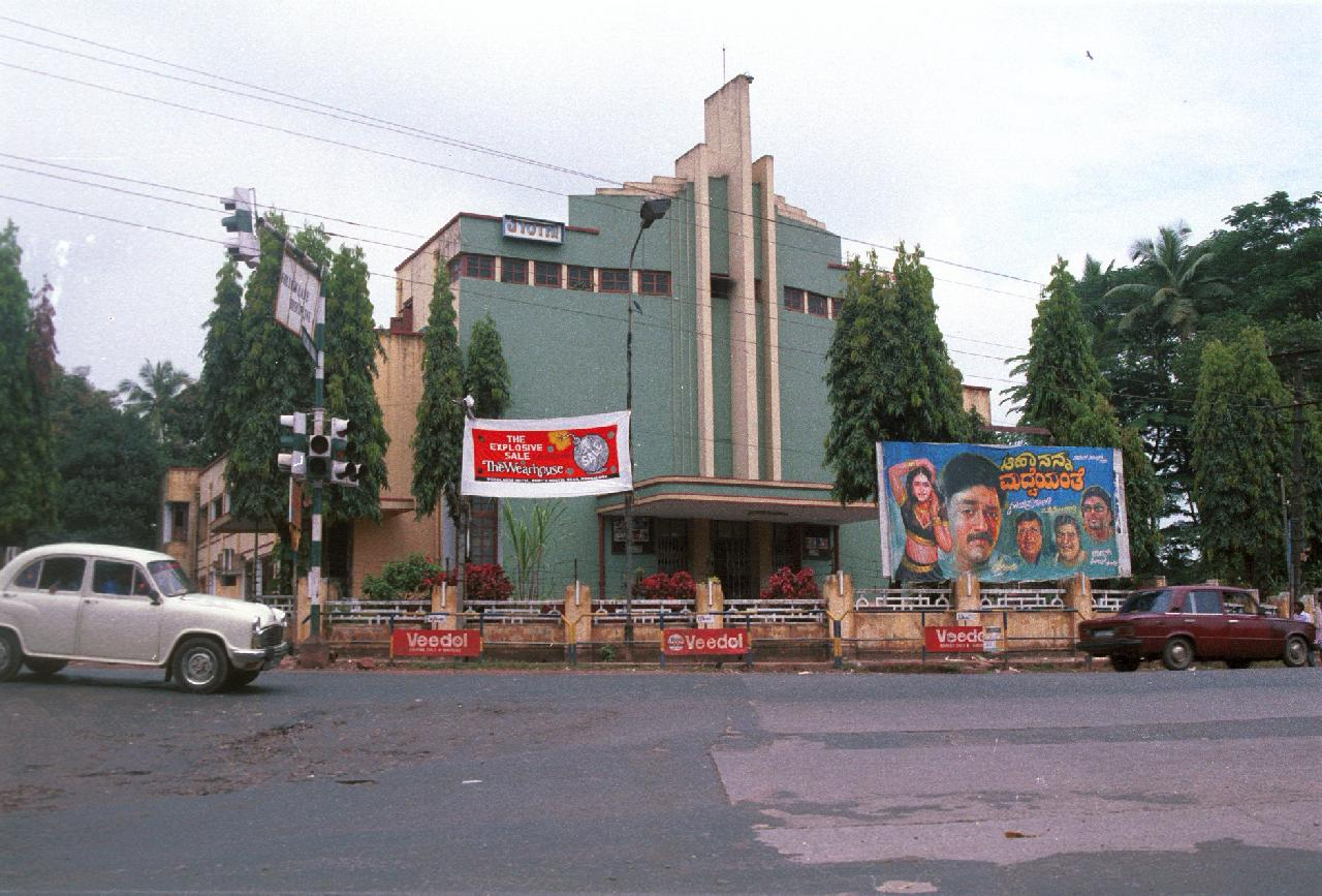 Jyothi Talkies in Mangalore. A movie theatre constructed in the old Art Deco style.